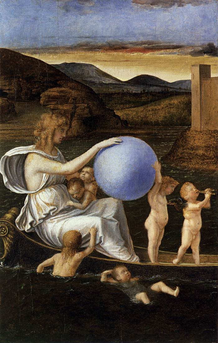 part of Four Allegories